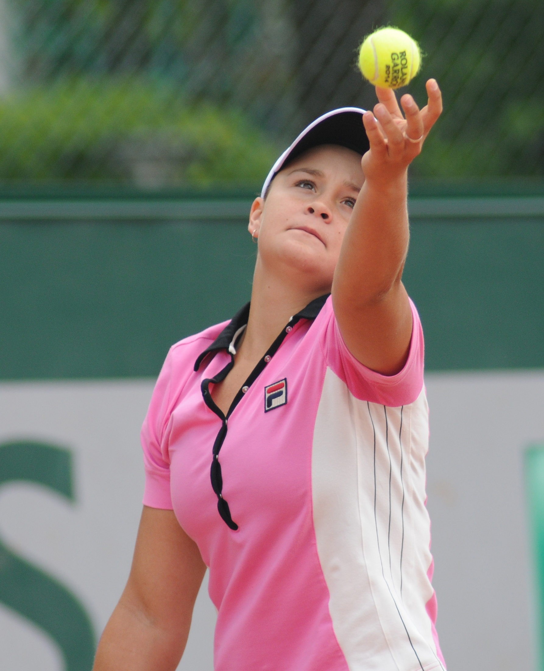 Ashleigh Barty